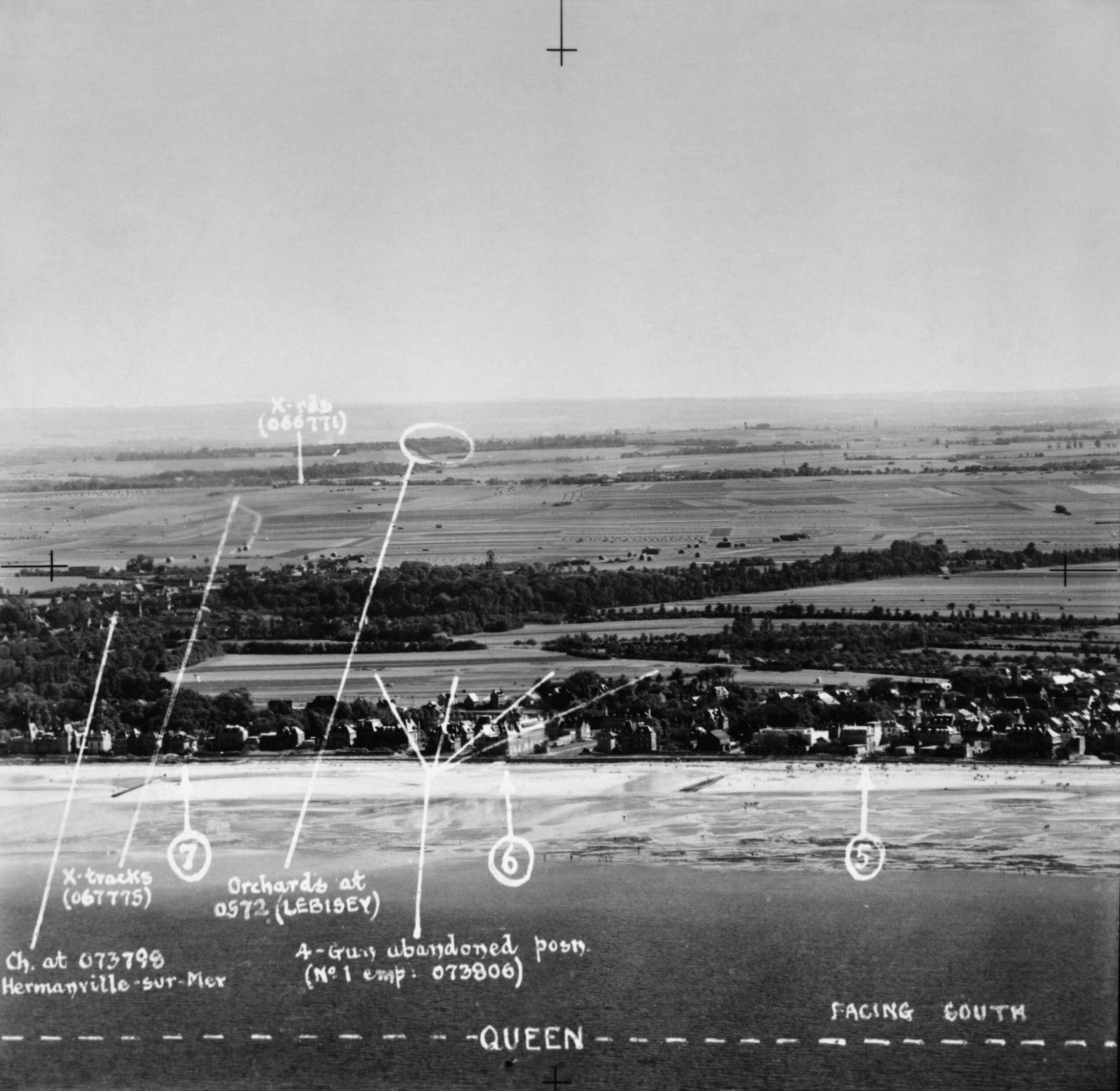 Annotated view of Queen Beach in Hermanville-sur-Mer (left) and Lion-sur-Mer (center, right), Normandy(7) : Rue du Moulin, Lion-sur-Mer(6) : Rue Marcotte, Lion-sur-Mer(5) : Rue Edmond Bellin, Lion-sur-Mer